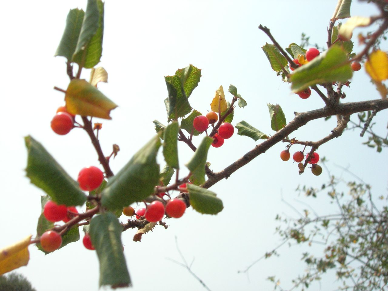 Rhamnus ilicifolia in the Tehachapi Mountains, California, USA